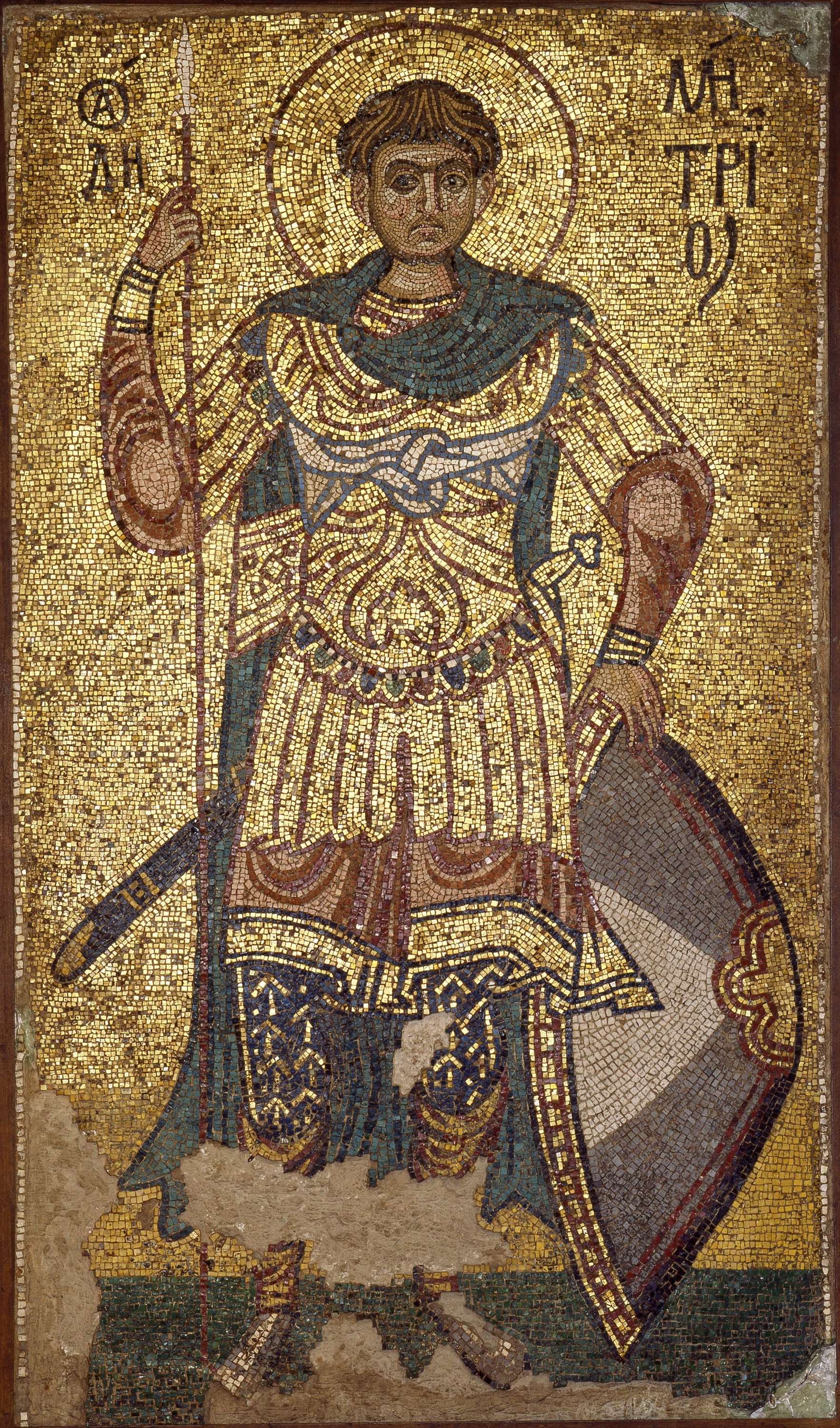 Russian mosaic of Saint Demetrius Solunsky (early 1113 year, Kiev).